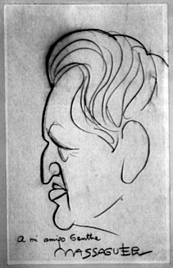 Caricature of German-born American photographer Arnold Genthe (1869-1942) by Cuban artist Conrado Massaguer (1889-1956)